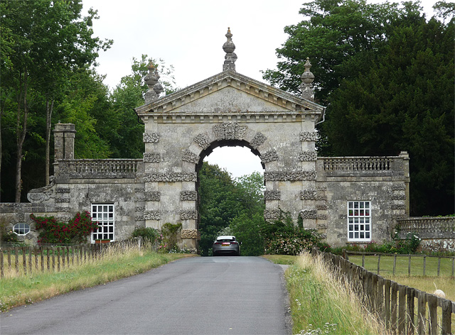 Gateway near Fonthill Bishop (1)